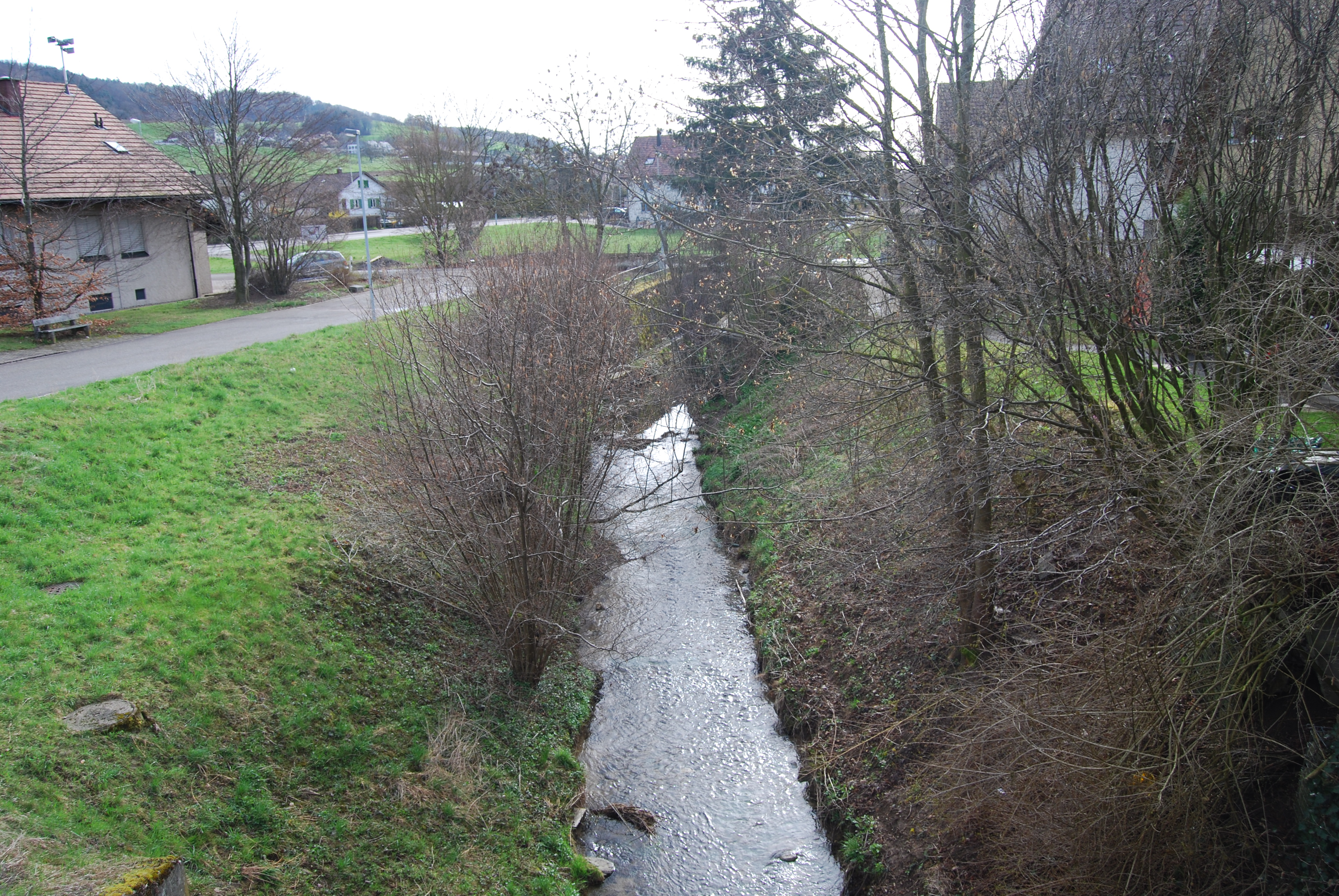 River Surb at Schleinikon, canton of Zürich, SwitzerlandEsperanto: Rivero Surbo en Schleinikon, Kantono Zuriko, Svislando